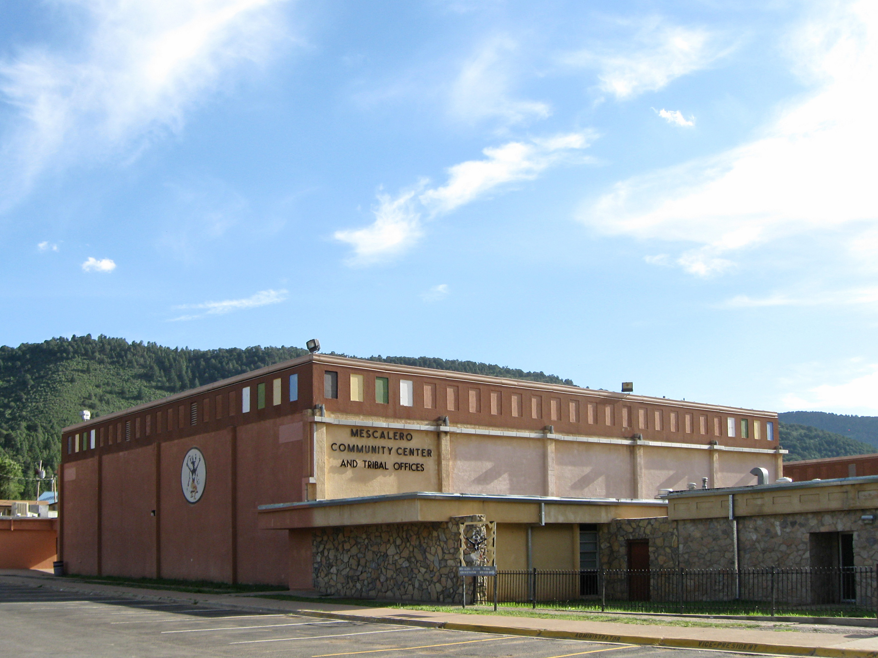 Mescalero Apache Tribal Administrative Offices and Community Center, located just off U.S. Highway 70 in Mescalero, New Mexico.